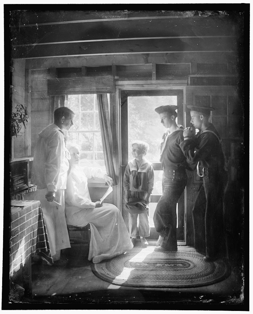 Black-and-white photograph of the Clarence White Family in Maine. The picture shows Mrs. Clarence White, seated by window in light, her husband and three sons in sailor outfits.